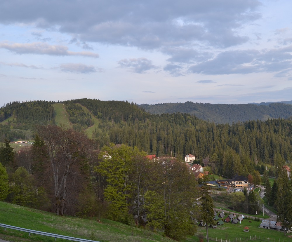 Ski-truck at Borsec in spring time